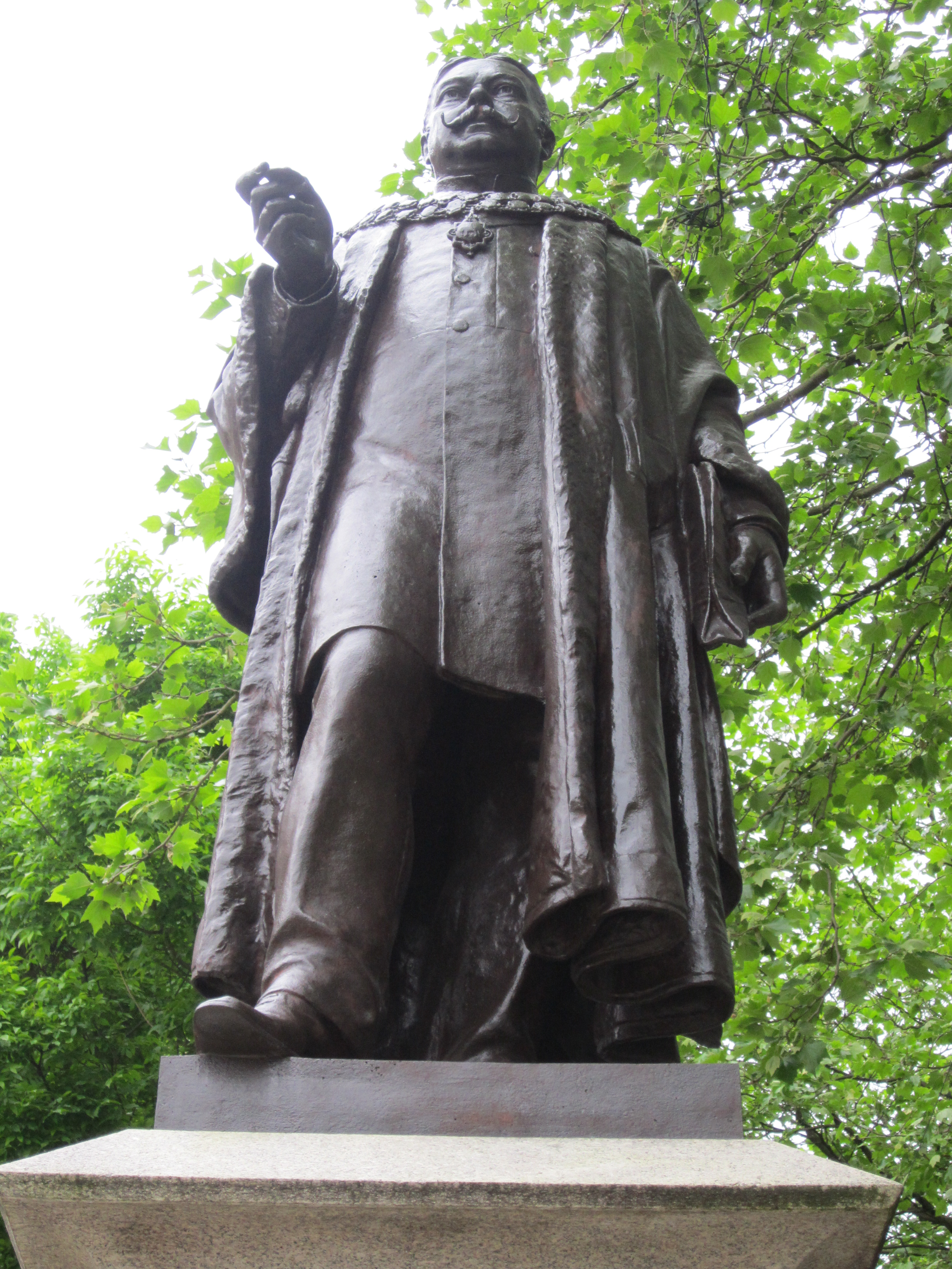 Sir Benjamin Alfred Dobson statue, Victoria Square, Bolton, Greater Manchester, England.